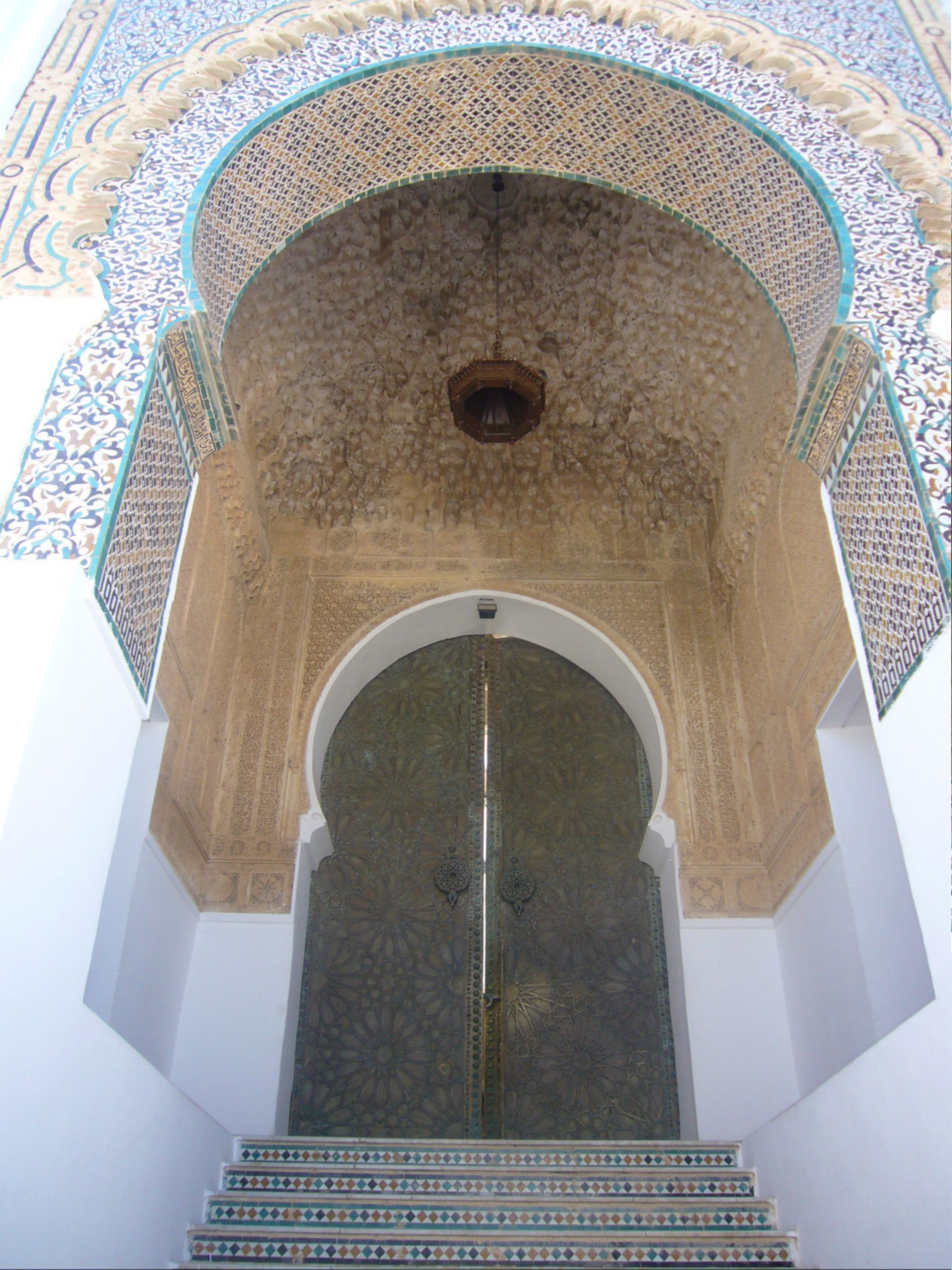 Door of the Sidi Boumediene mosque (Tlemcen)